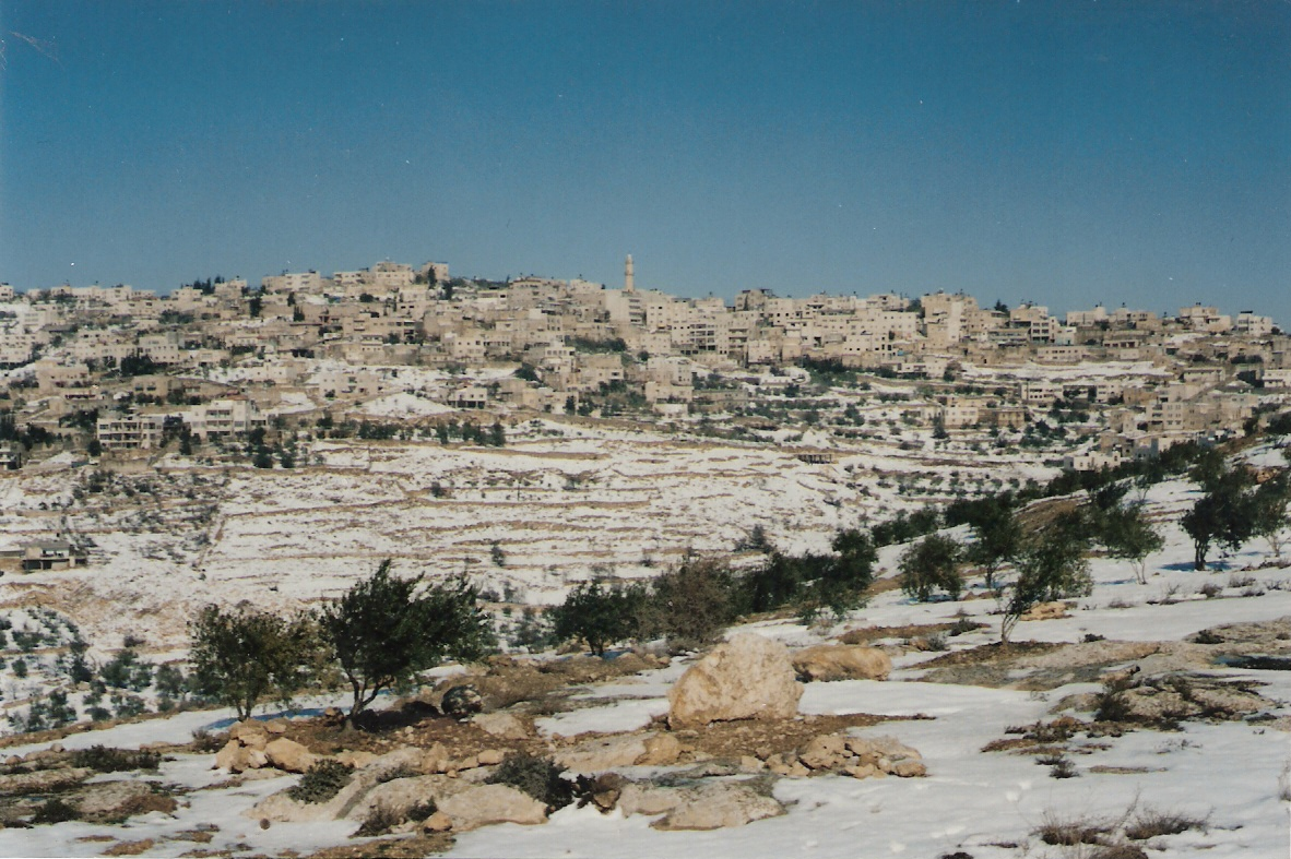 Sur Baher - Umm Tuba, East Jerusalem